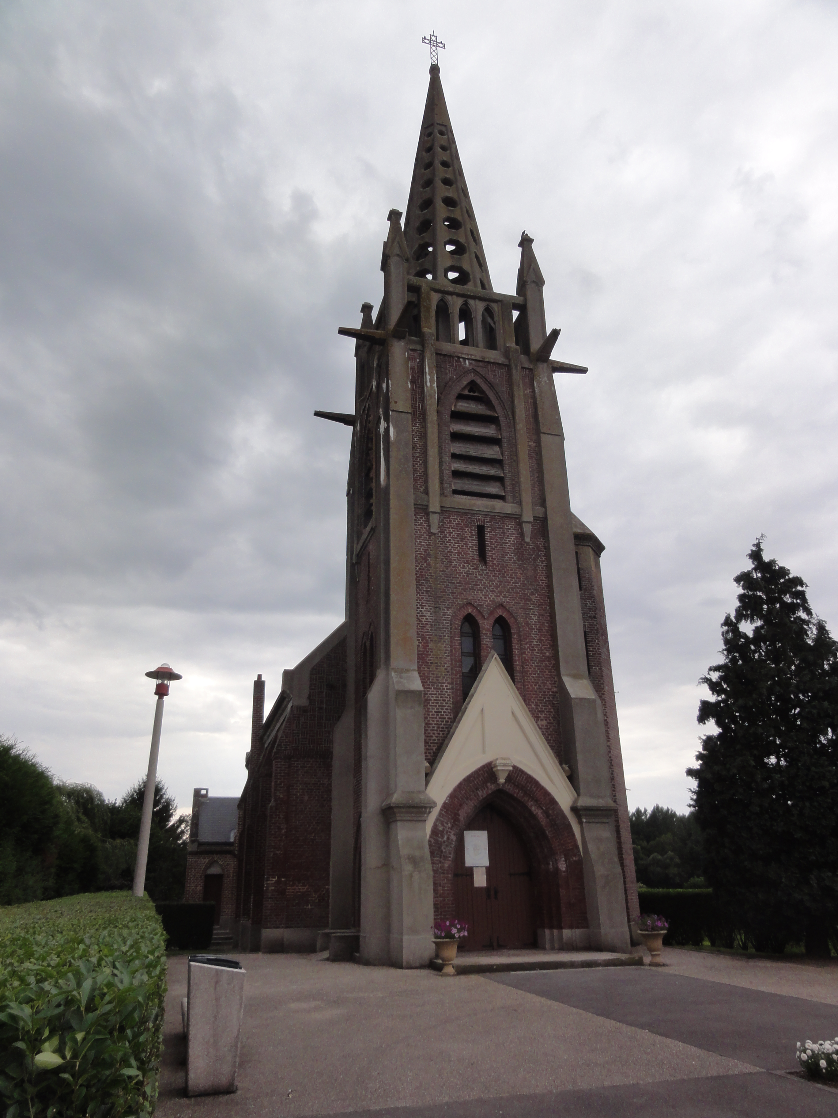 Condren (Aisne) église Saint-Pierre